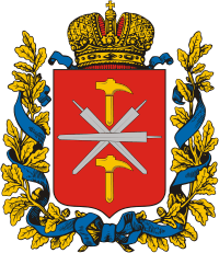 Tula gubernia (Russian empire), coat of arms